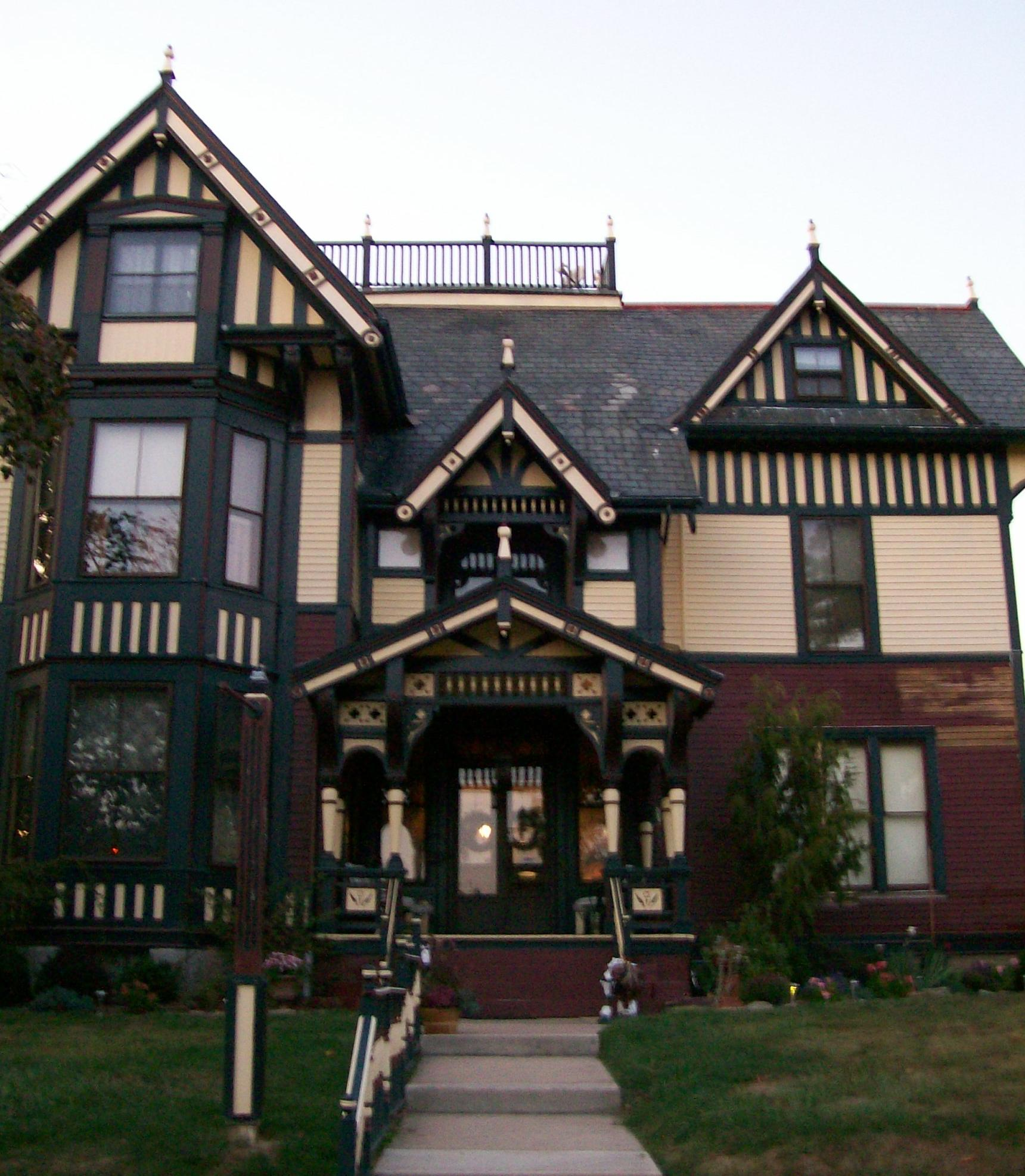 Front of the Colonel Joseph Taylor House, located at 633 Upland Road in Cambridge, Ohio, United States. Built in 1878 and the home of Joseph D. Taylor, it is listed on the National Register of Historic Places.